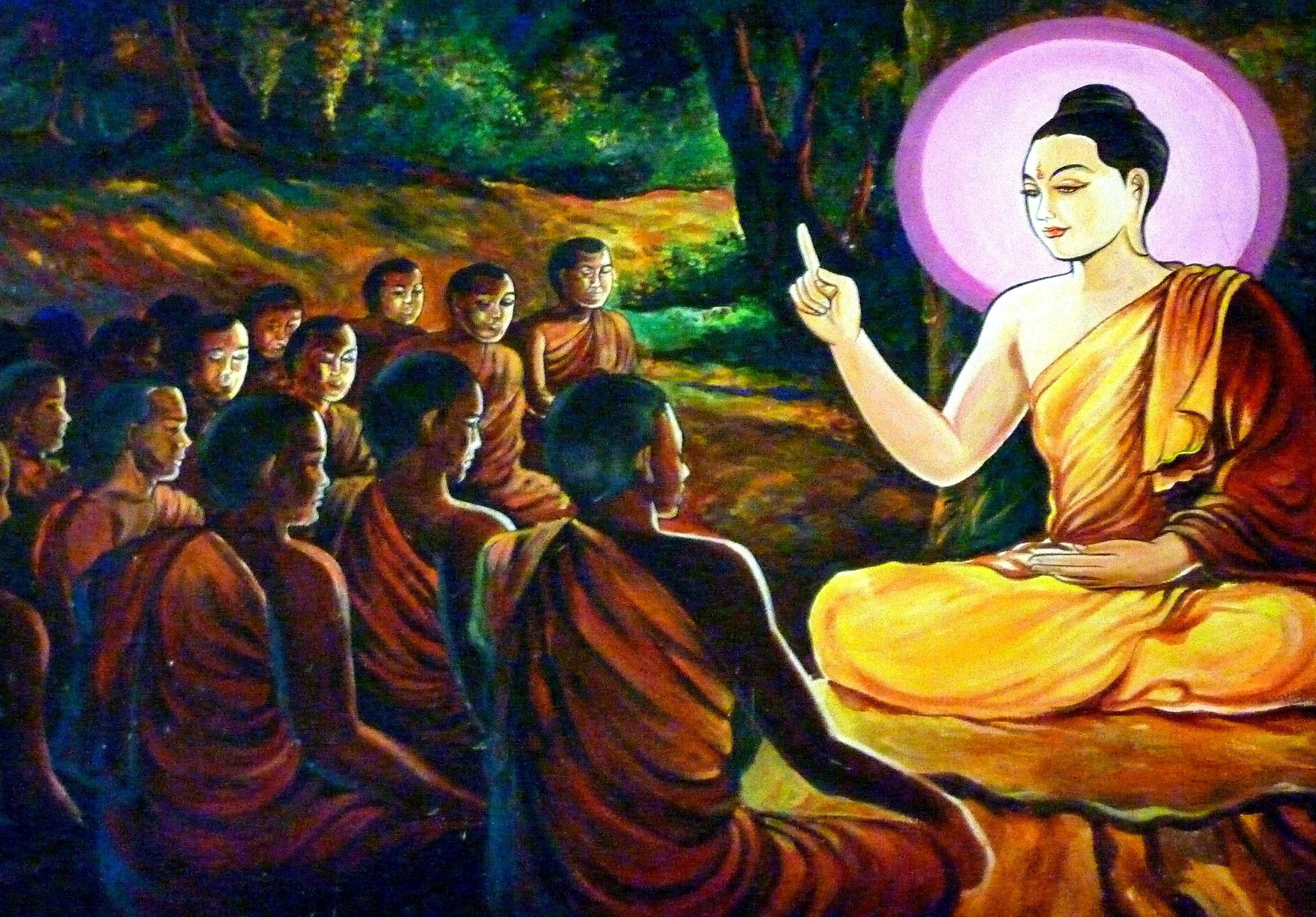 060 The Uposatha Night, at Wat Olak Madu, Kedah